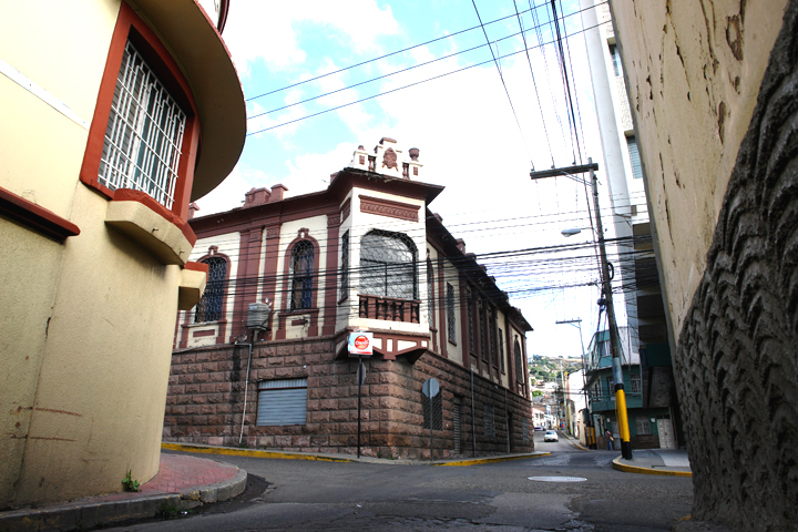 Street in Tegucigalpa city centre, Honduras